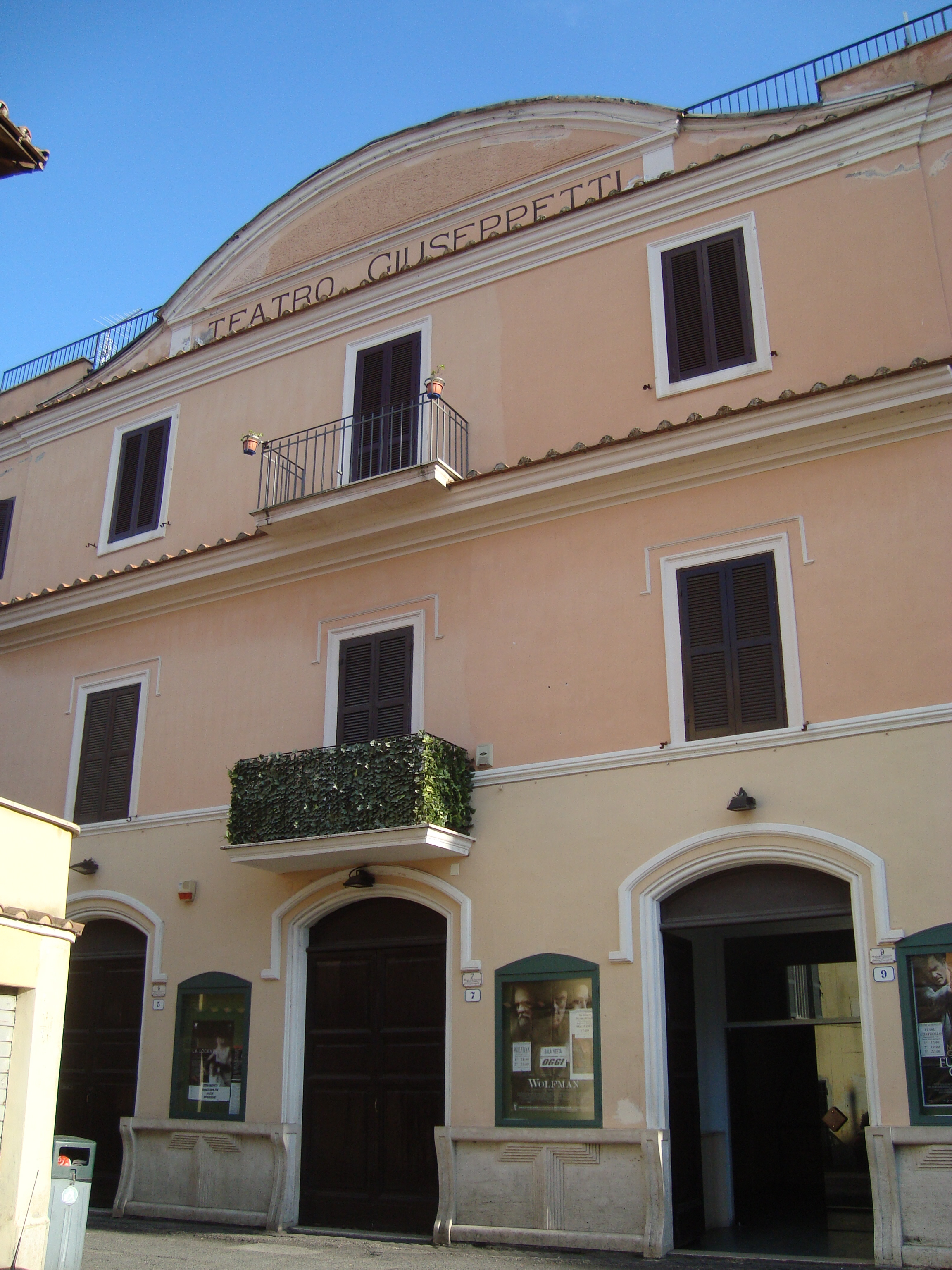 The teatro Giusepetti in Tivoli